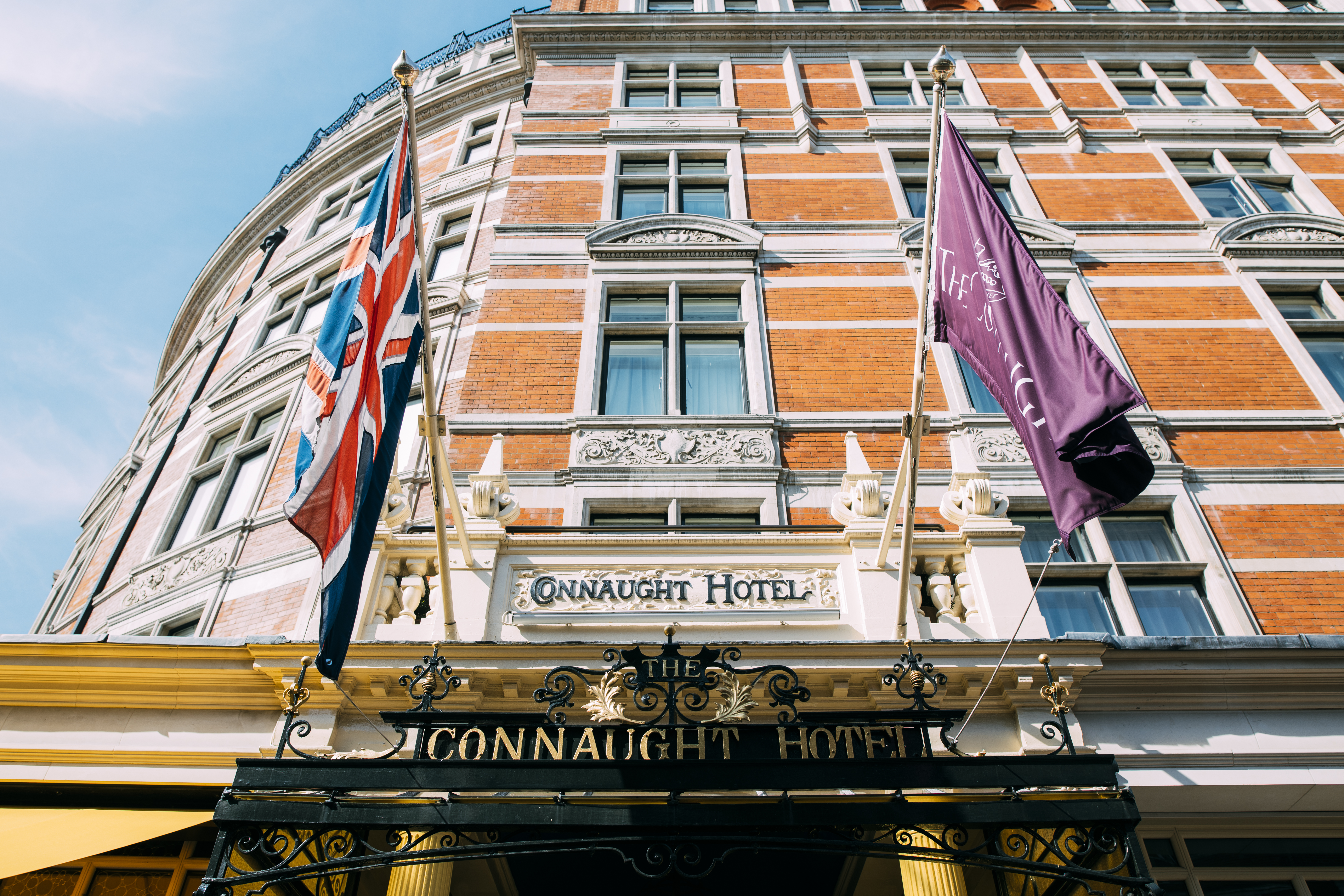 The connaught hotel london exterior entrance